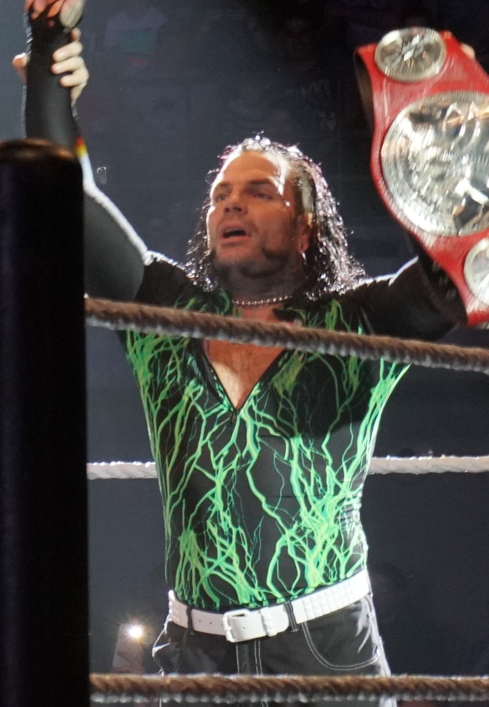 Jeff Hardy as Raw Tag Team Champion in May 2017